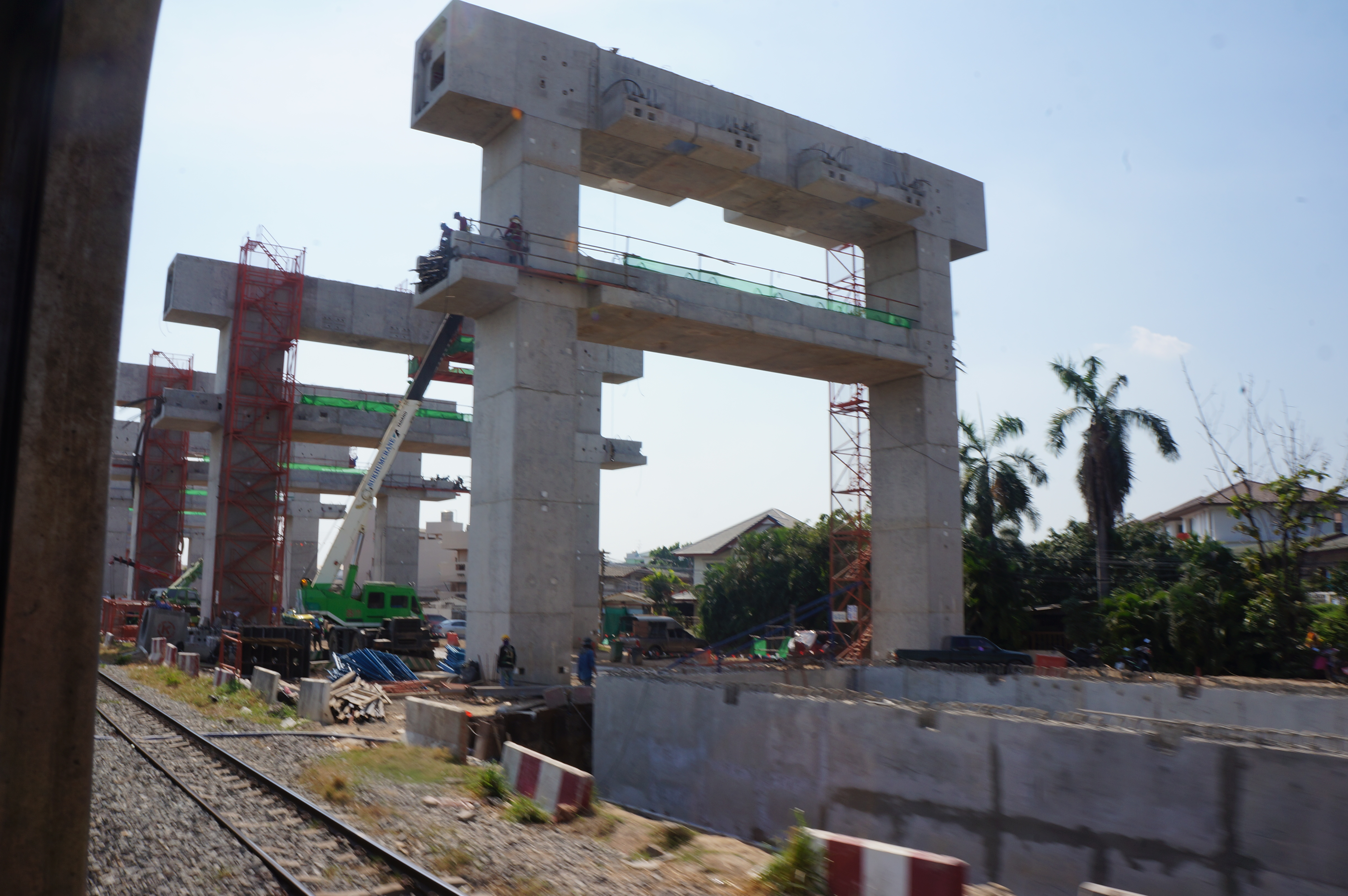 201701 SRT Dark Red Line under construction near Bang Sue. It seems the place where CNR Coaches derailed few days ago.